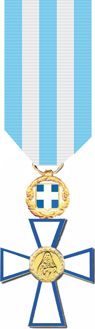 Greek Cross of Valor Gold Cross, 1974 version